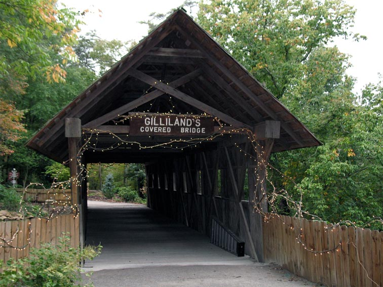 The Gilliland-Reese Covered Bridge in Etowah County, Alabama. It was taken by M.L. Devall in October 2007.